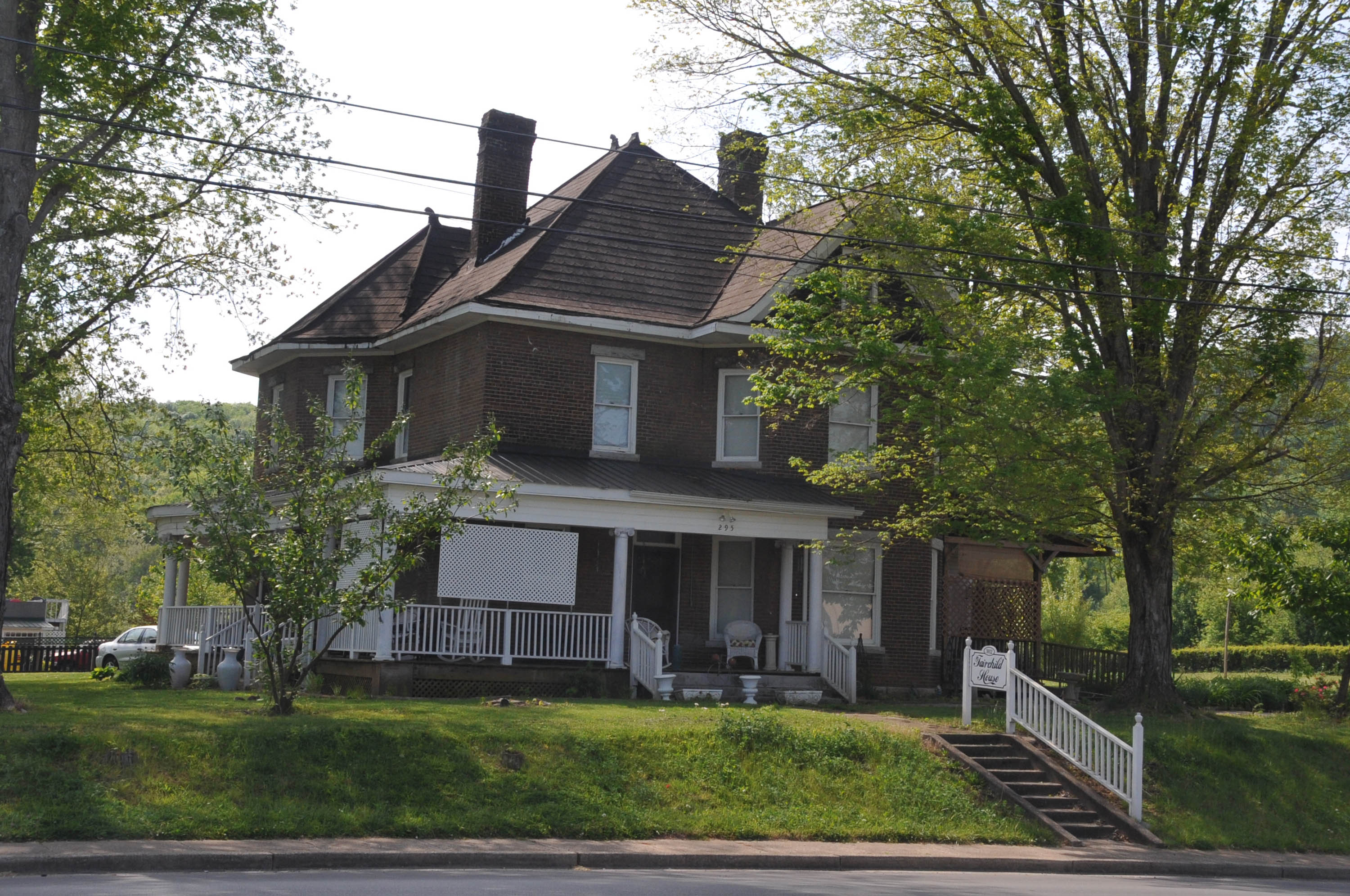 BUILT IN 1906 IN LOW QUEEN ANNE VICTORIAN STYLE BY THE ARCHITECTS BARBER AND KLUTTZ OF KNOXVILLE. FIRST BRICK HOUSE IN MONTICELLO